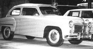 "Graciela" by IAME (Industrias Aeronáuticas y Mecánicas del Estado), one of the first cars produced in Argentina.